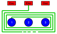 The amount of possibilities is not finite.